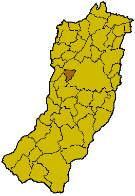 Location of Cavriago.